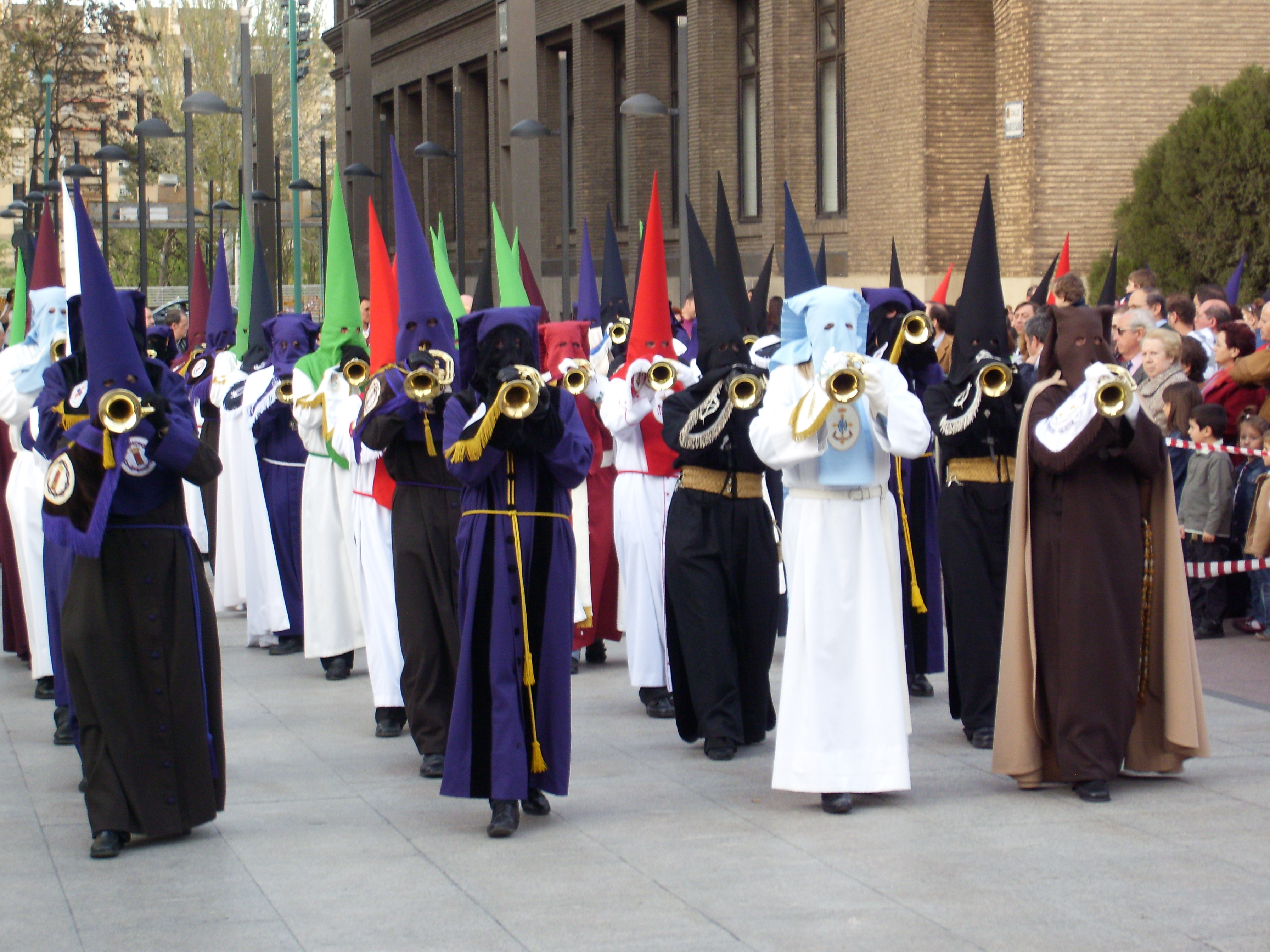 This is a photography of a Folklore festival in Spain (Wikidata id Q9075892).